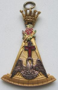 piece of jewelry of the "18° Knight of the Rose Croix" Scottish Rite (20th century image)